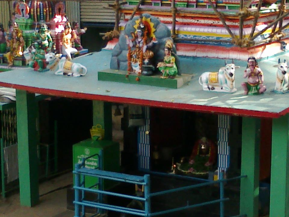 Santhana MahaLingam Temple, Sathruagiri Hills, Madurai District, at Wester Ghats